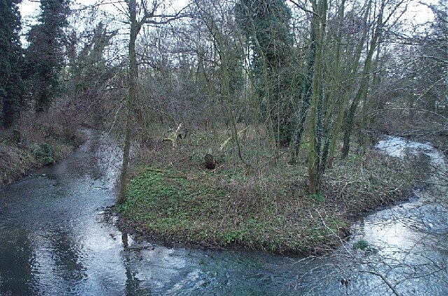 ... at Burns Lane, Warsop. River Meden is a river mostly in Nottinghamshire, England. Its source lies just north of Huthwaite, near the Derbyshire border, and from there it flows north east through Pleasley and Warsop before merging temporarily with the River Maun near Bothamsall.